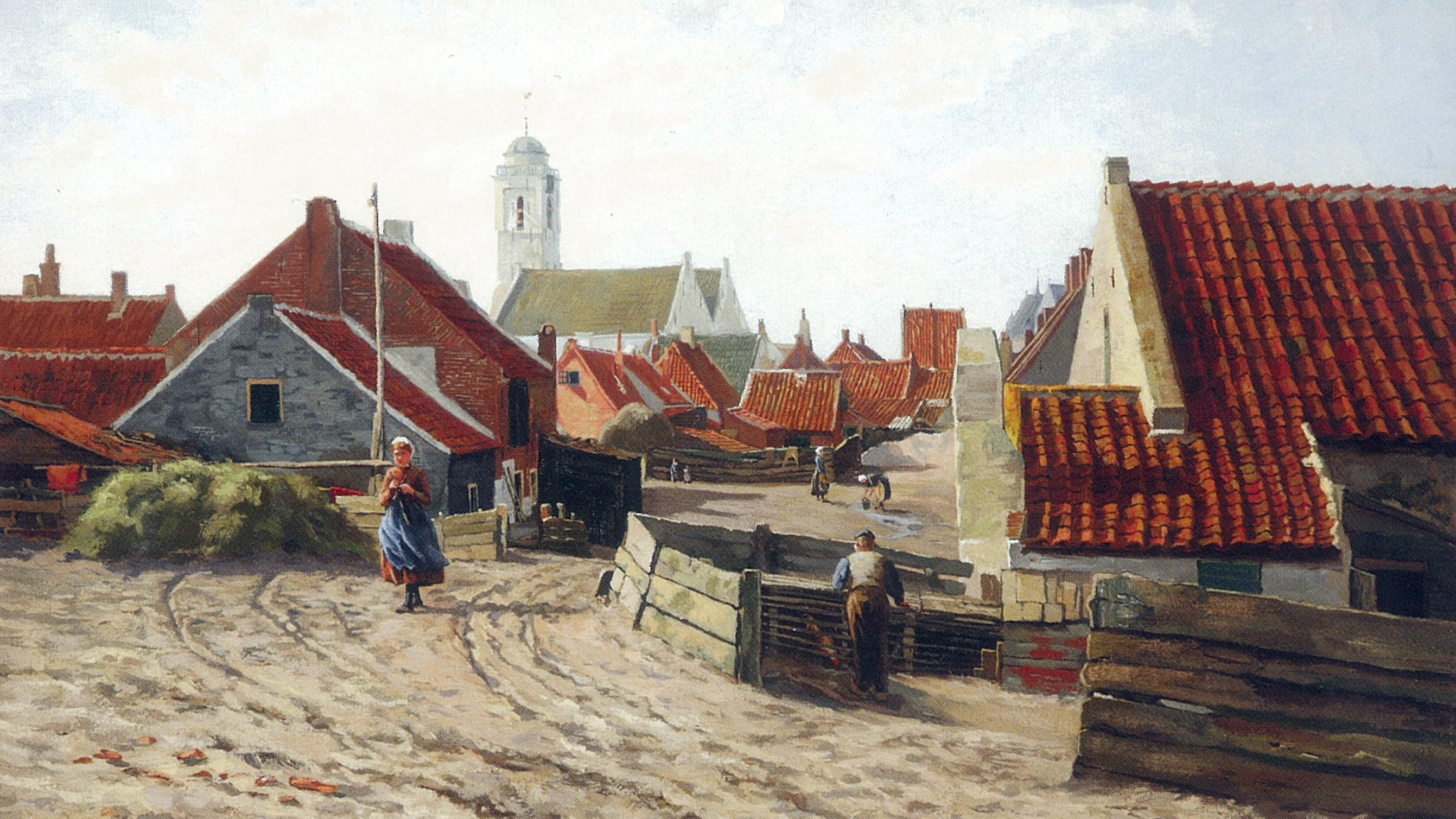 Gezicht op Katwijk (Katwijks Museum)